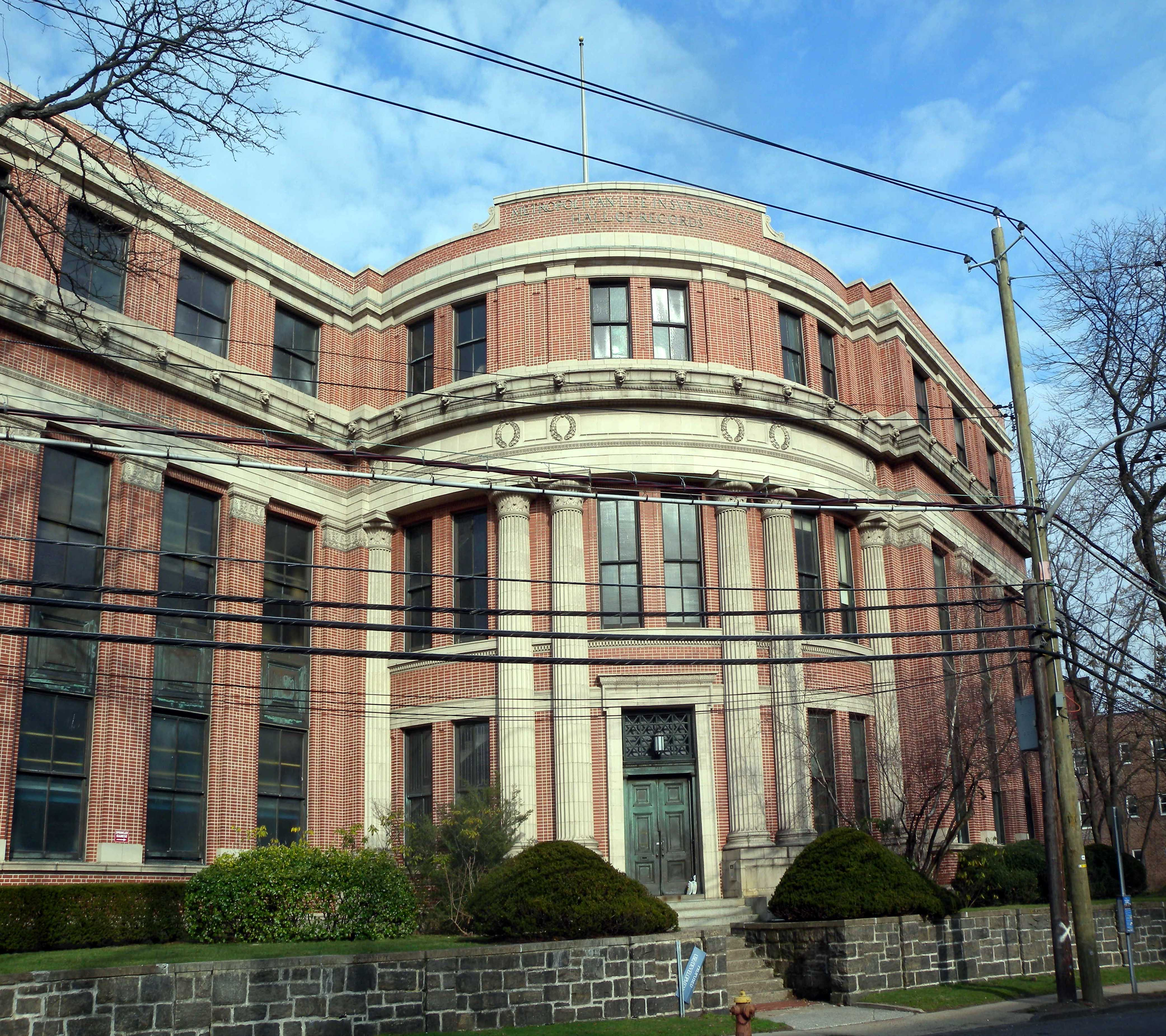 Looking east across Palmer at Hall of Records of Metropolitan Life Insurance Company on a cloudy afternoon.